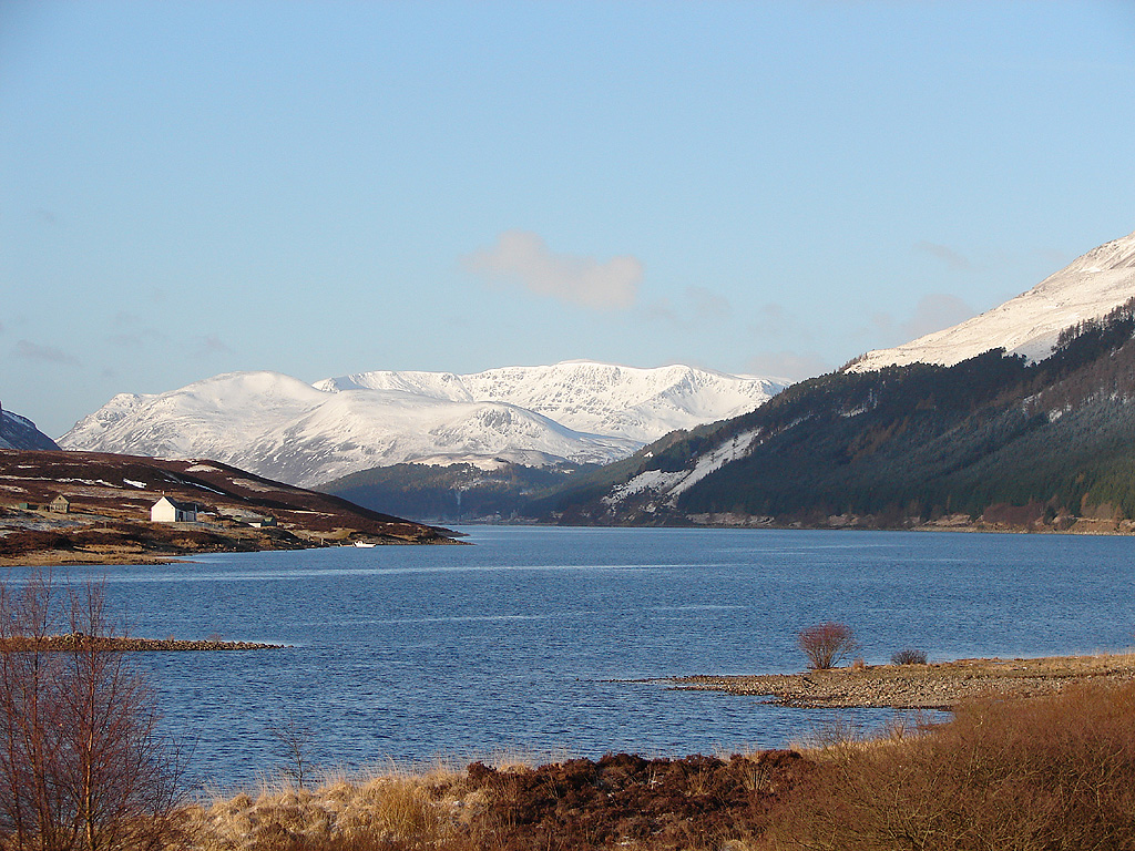 Loch Ericht and Ben Alder, near to Dalwhinnie, Highland, Great Britain. A view along Loch Ericht towards Ben Alder. Loch Ericht is some 15 miles long and Ben Alder (centre)is about 11 miles from the camera position.